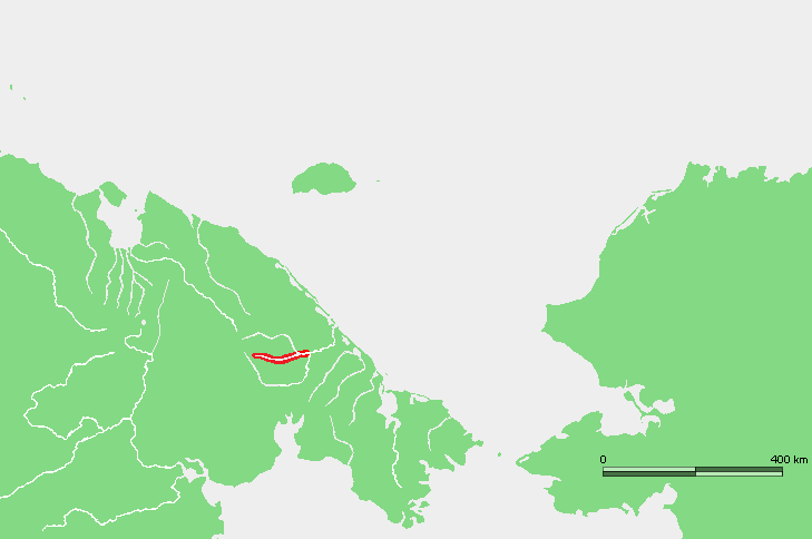 location map